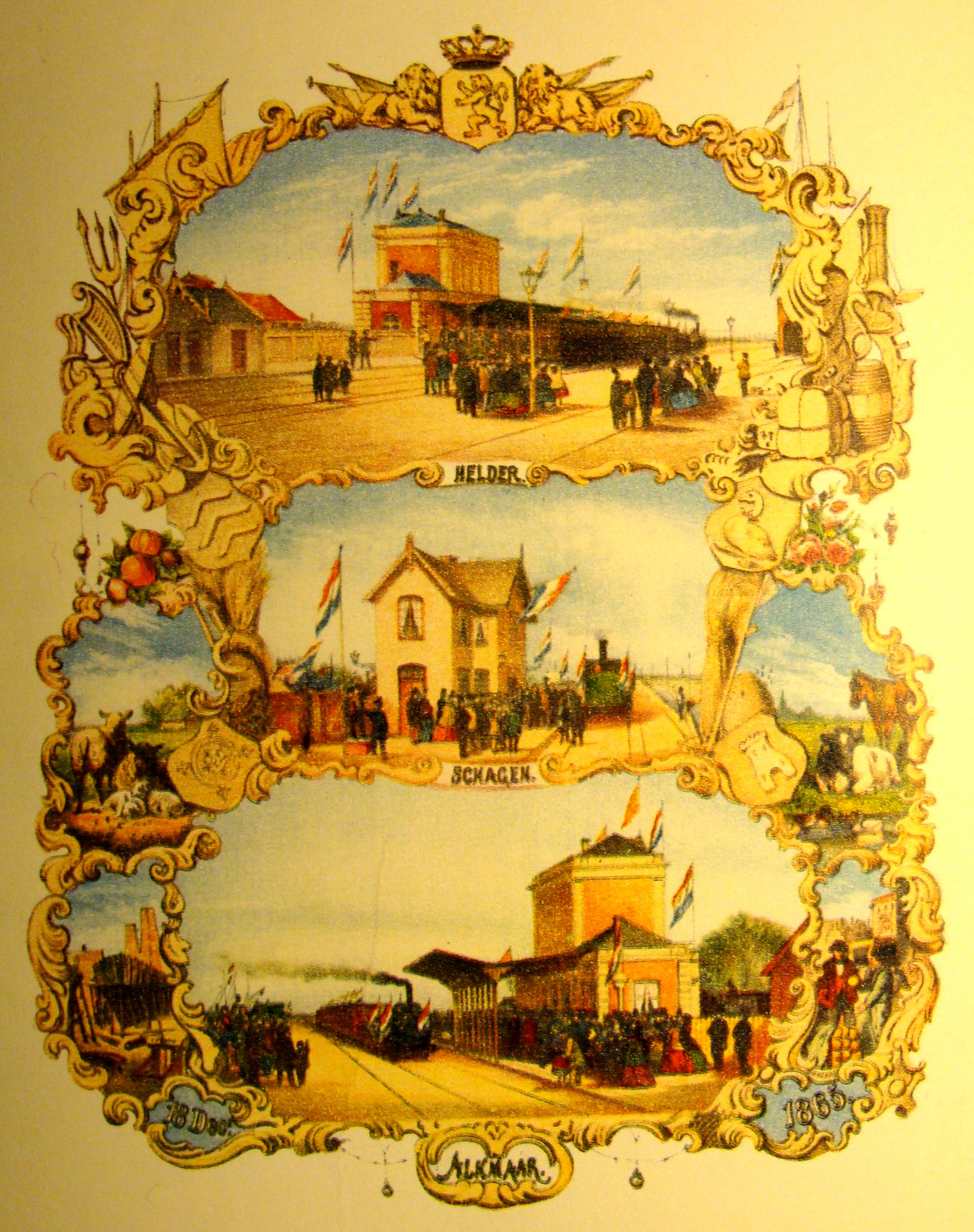 Lithography made on the occasion of the opening of the railway from Den Helder to Alkmaar in the Netherlands on December 18, 1865